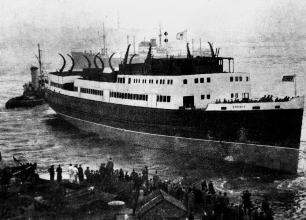 Manxman (ship) The Isle of Man Steam Packet Company's new steamer 'Manxman' being manoevred into Messrs. Cammell Laird's fitting out basin at Birkenhead. (Description supplied with photograph).